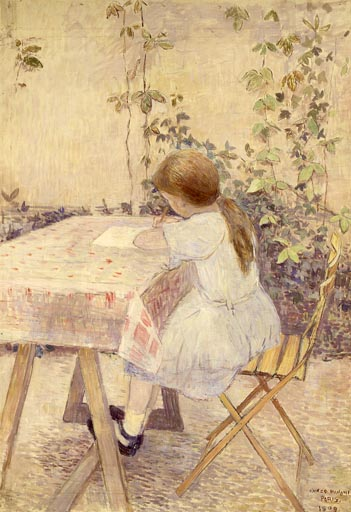 Work by Minami Kunzô